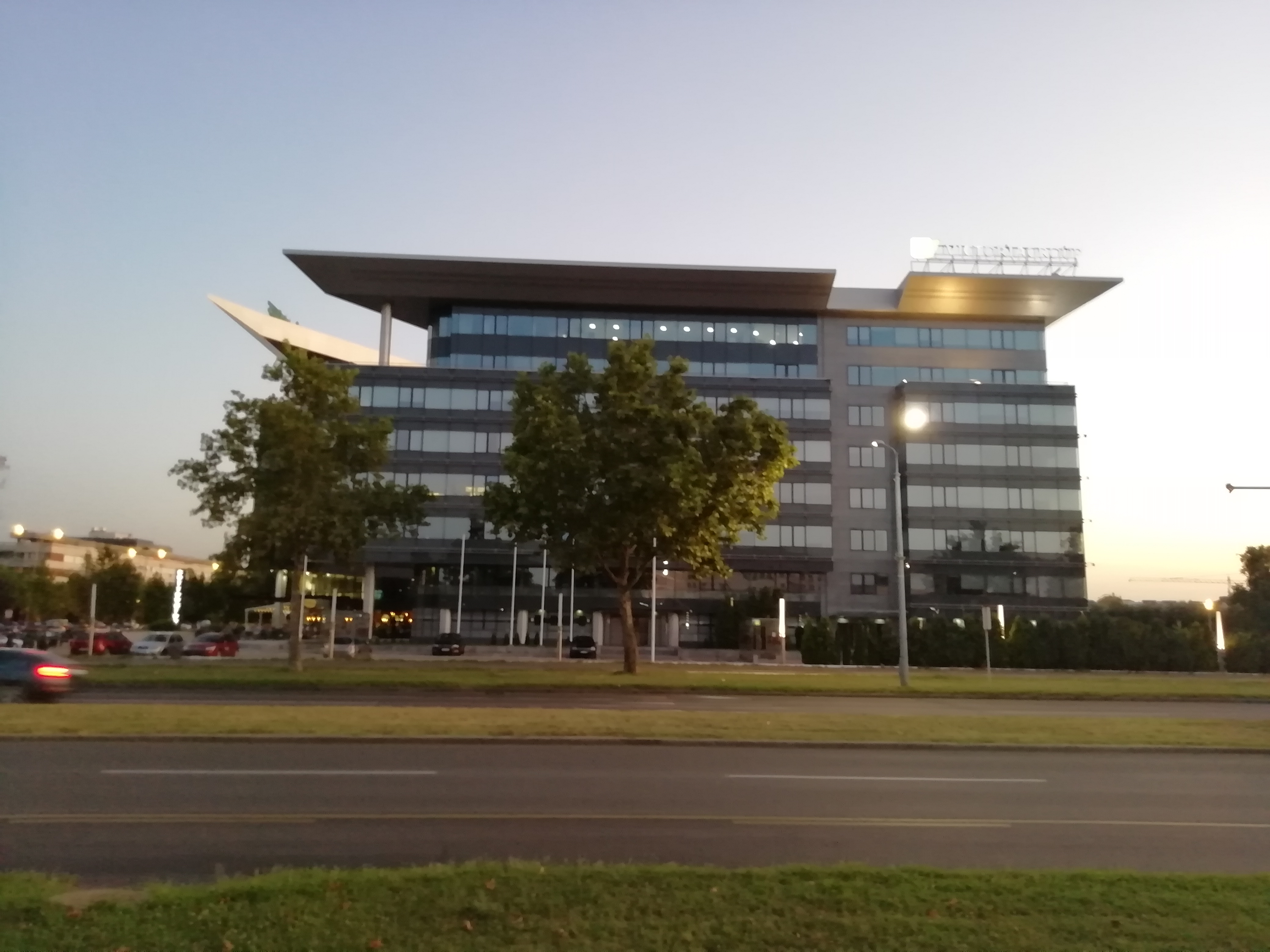 MK Group Headquarters, August 2019